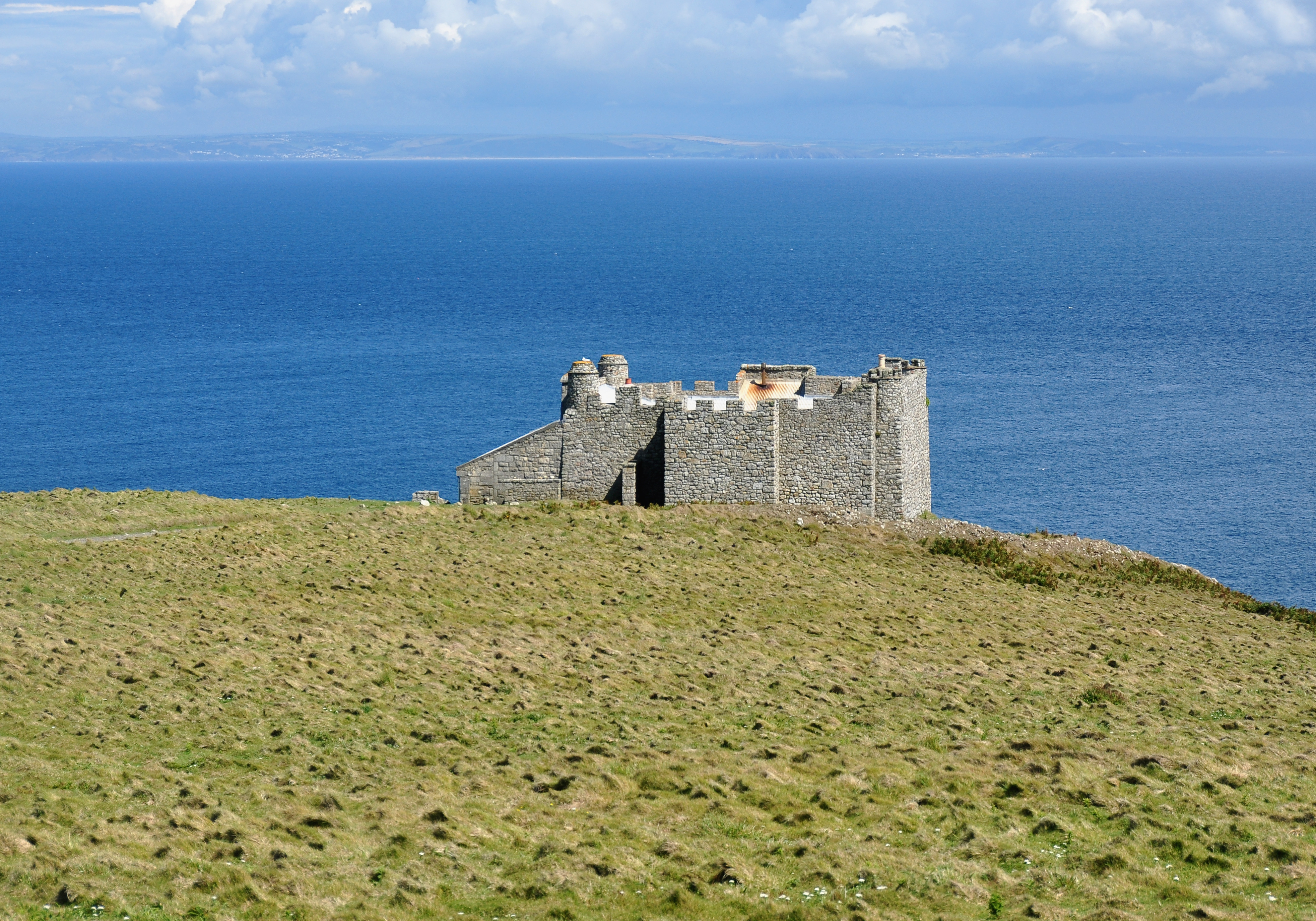 Marisco Castle on Lundy, with the north coast of Devon in the distance.